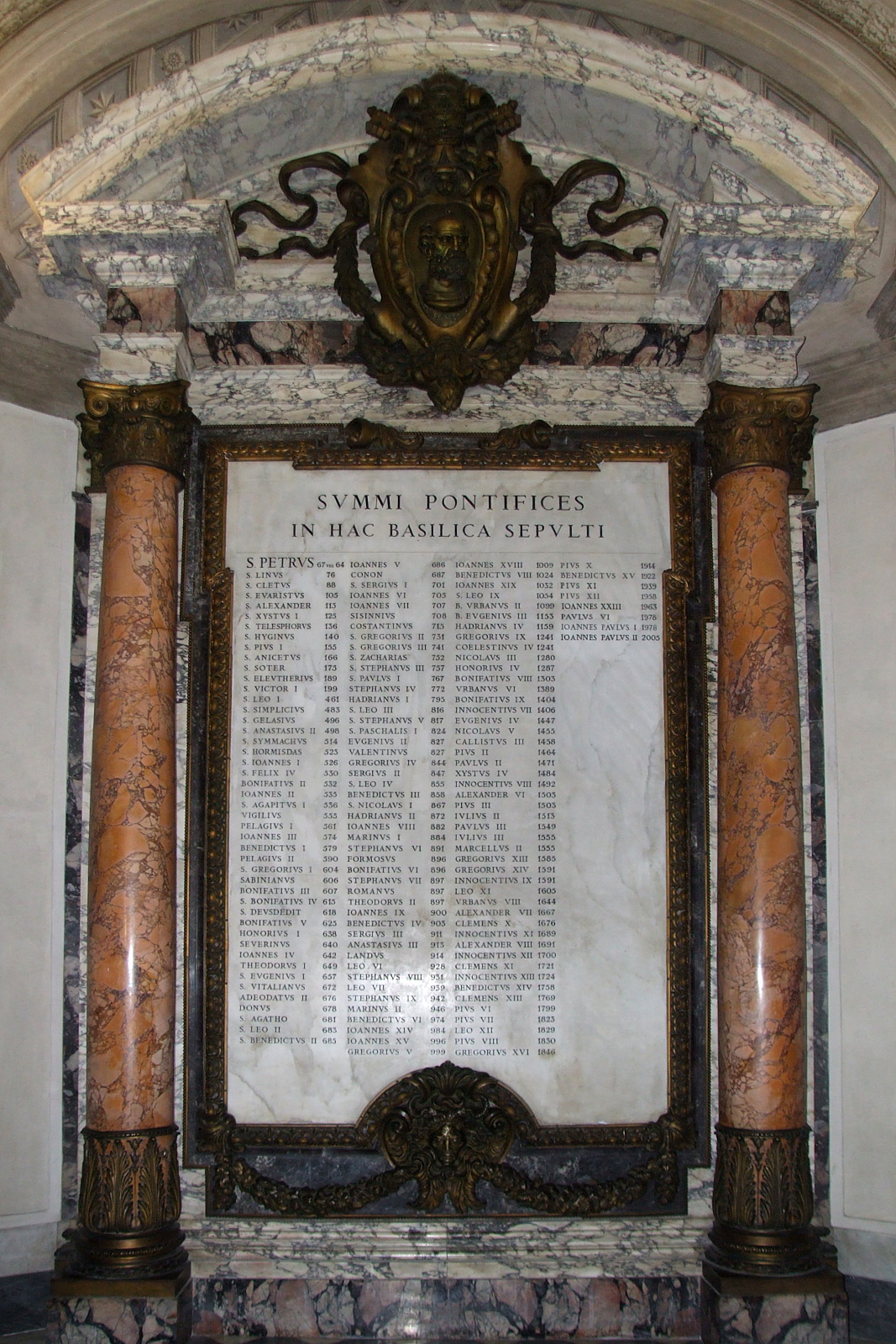 Index Pope Vatikan City